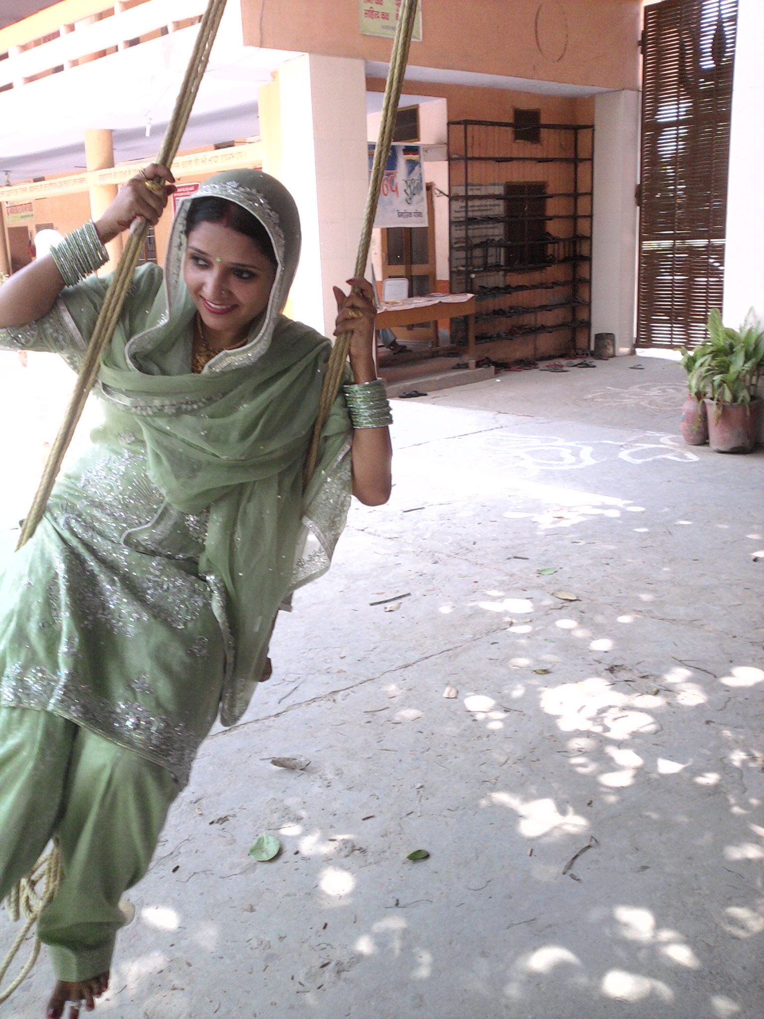 it is about the way we celebrate Teej in Haryana